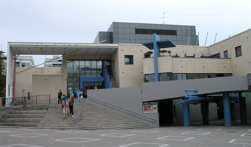 Kanneltalo, the regional culture center, situated in the Kannelmäki district of northwestern Helsinki, Finland.